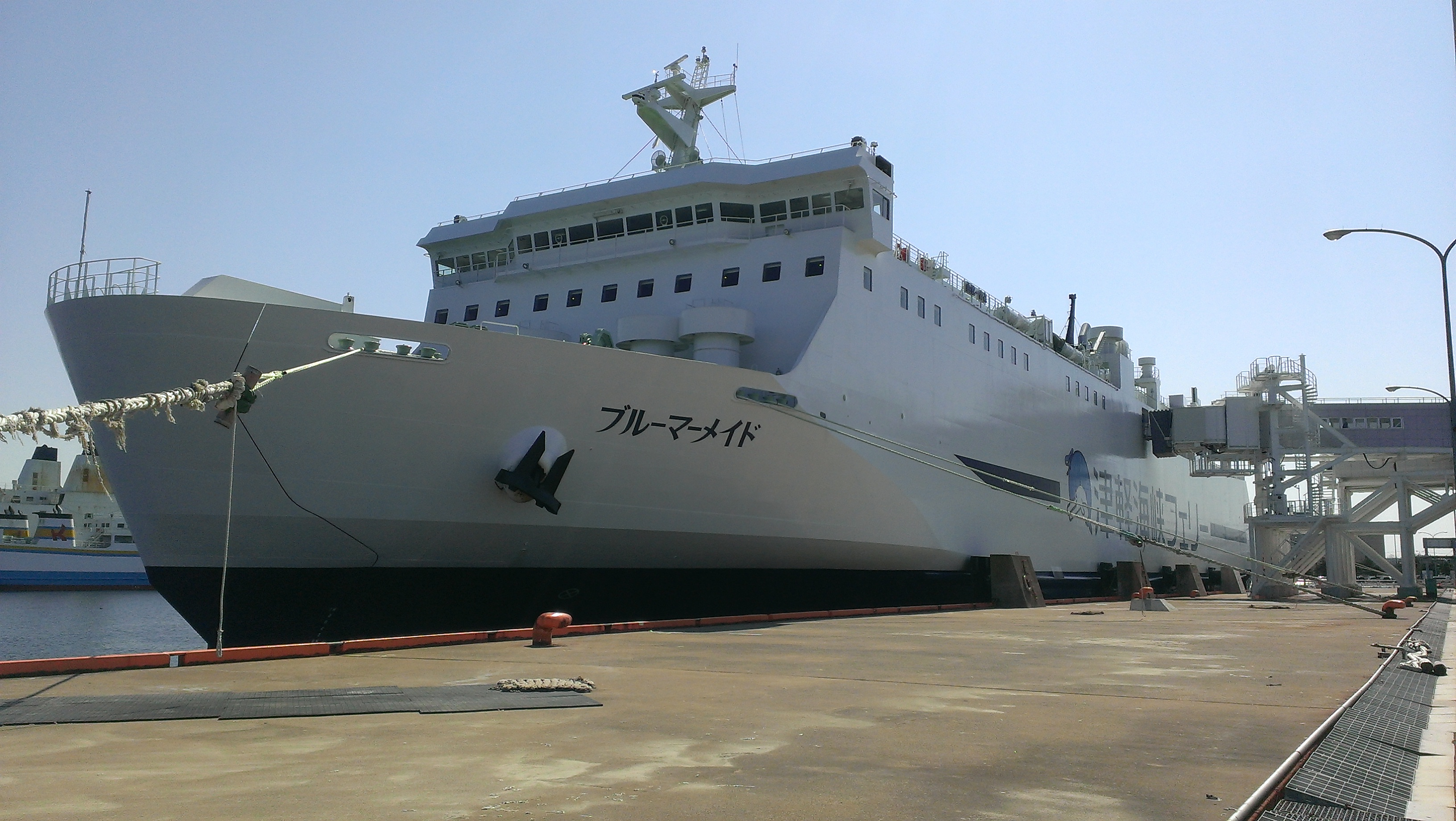 Tsugaru Kaikyo Ferry Blue Mermaid departing the Aomori Ferry Terminal